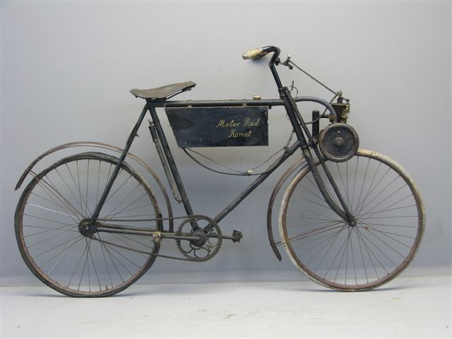 Komet motorised bicycle from circa 1902, 1 HP ca. 100 cc two stroke cycle motor.